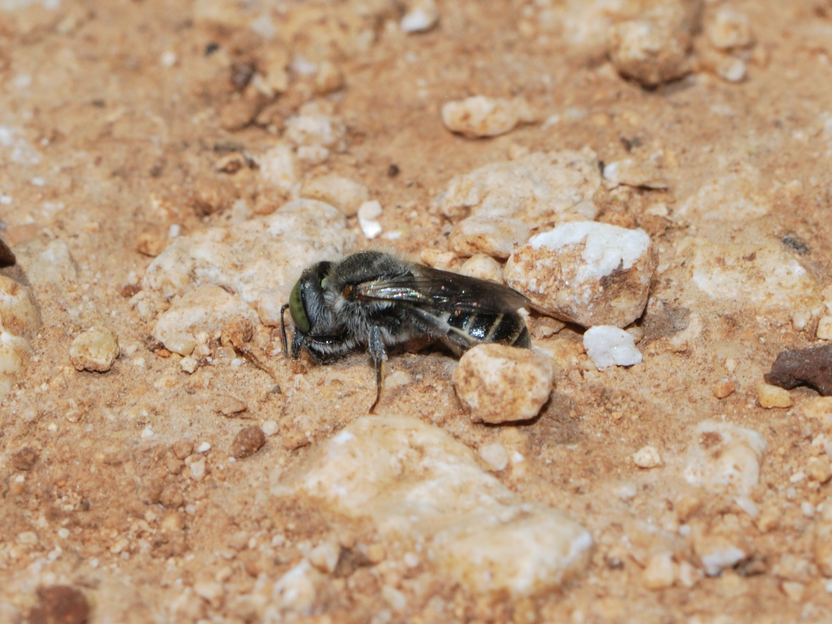 Hoplitis homalocera, female collecting mud to build her nest, Nahal Kelah, Mount Carmel, Israel, April 17, 2011. Det. Andreas Mueller 2011.